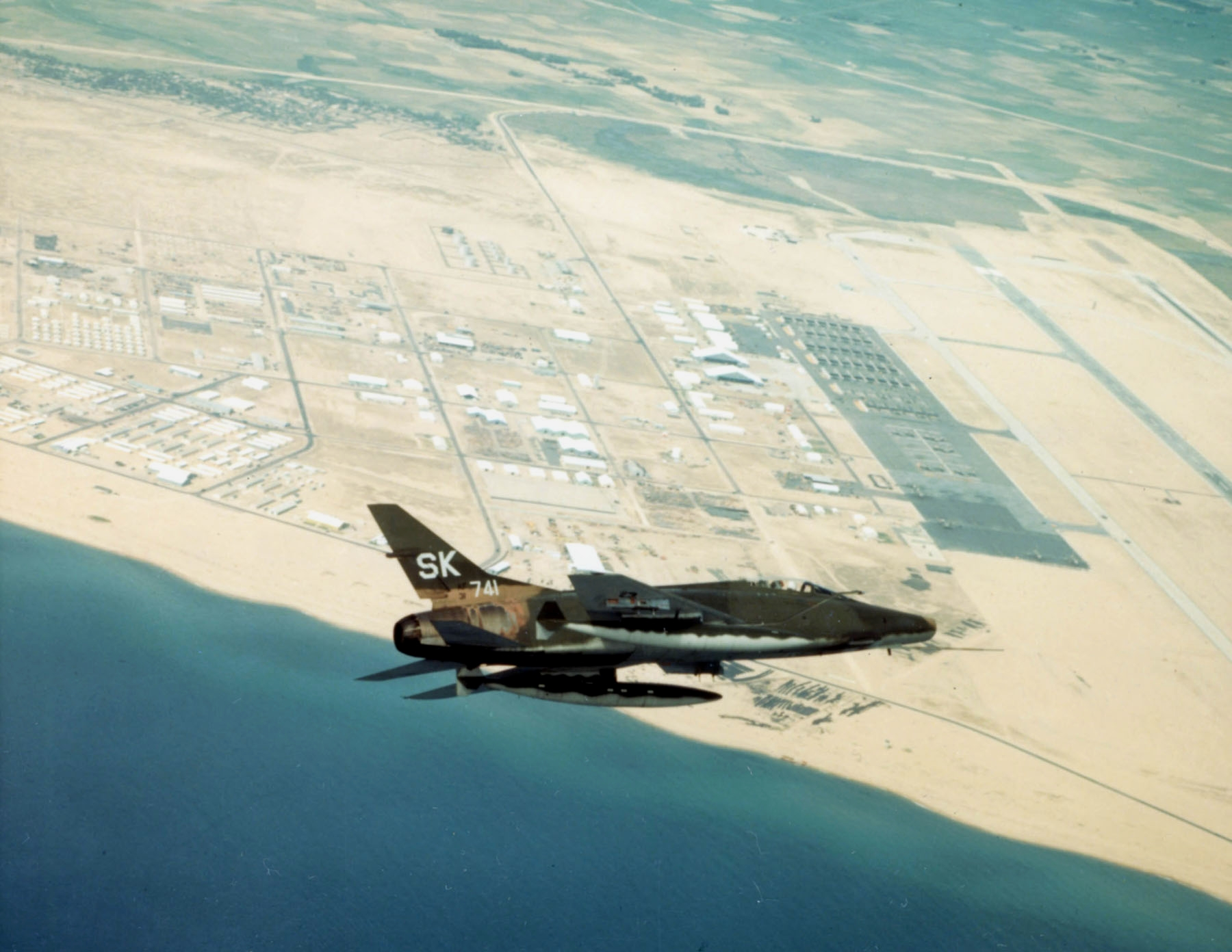 A U.S. Air Force North American F-100C Super Sabre (s/n 53-1741) of the 188th Tactical Fighter Squadron, New Mexico Air National Guard, flies over Tuy Hoa Air Base, South Vietnam in 1968/69. The 188th TFS operated with the 31st Tactical Fighter Wing from 7 June 1968 to 18 May 1969. The F-100C 53-1741 was shot down by gunfire over Laos on 4 May 1969. The pilot, Capt. Michael T. Adams, was killed.